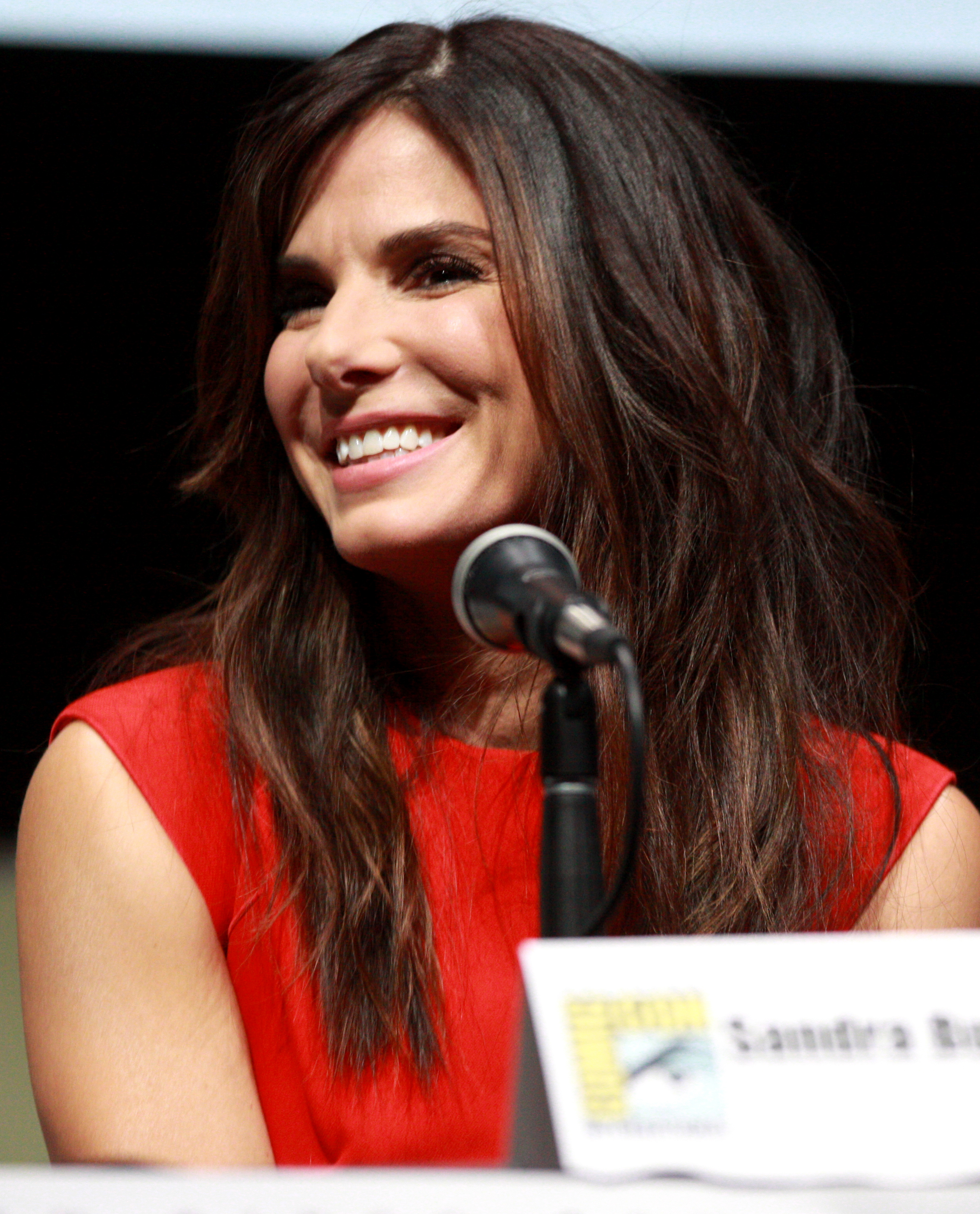 Sandra Bullock at the 2013 San Diego Comic Con International in San Diego, California.